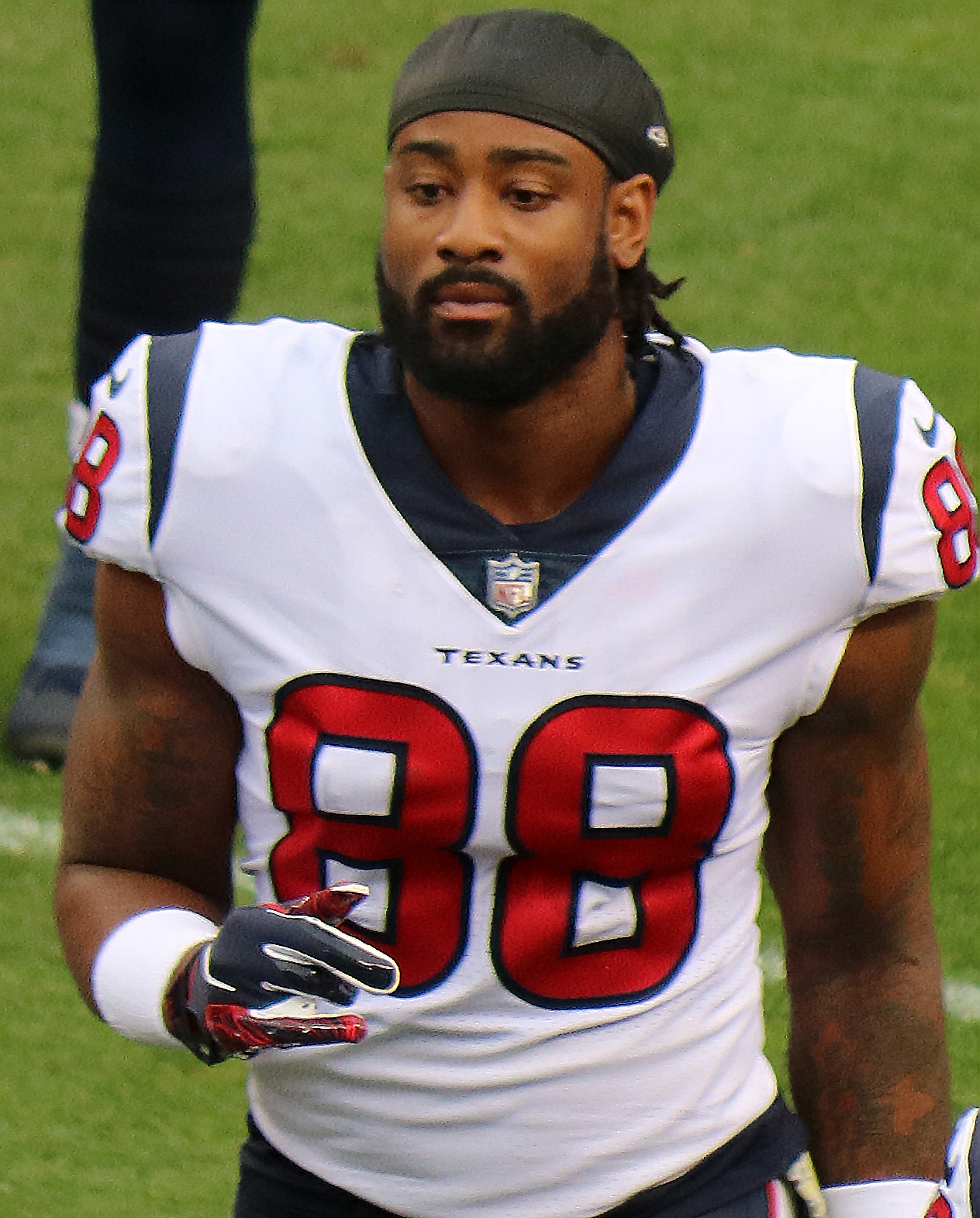 Jordan Akins, a National Football League player.